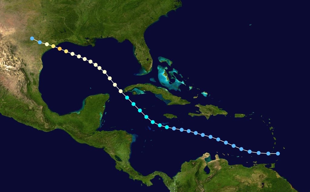 1909 Atlantic hurricane 4 track.png track. Uses the color scheme from the Saffir-Simpson Hurricane Scale.